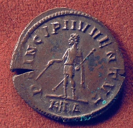 Numerianus as "Princeps Iuventutis" Antoninianus of Numerianus (son of Carus and brother of Carinus) as Cesar Numerianus